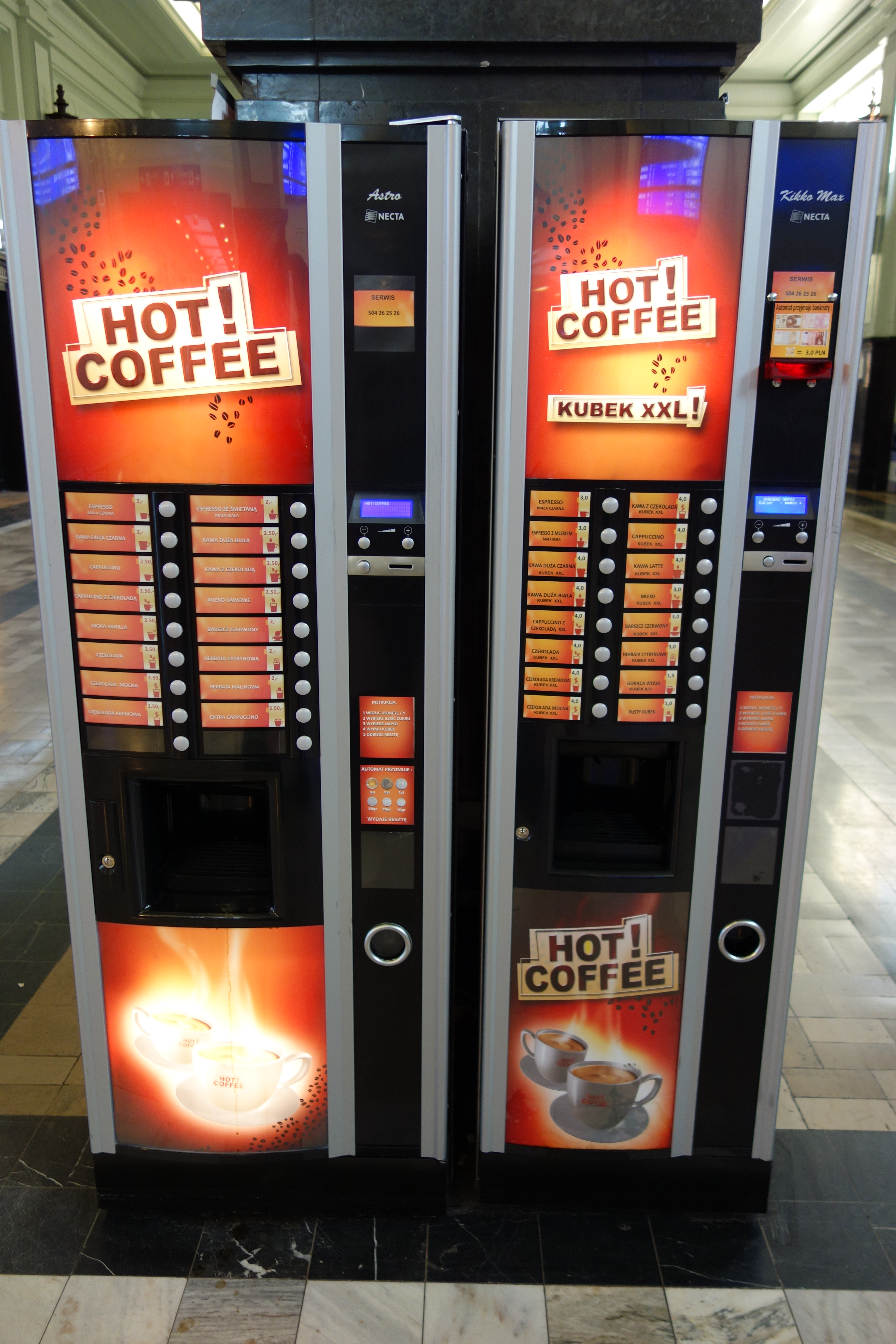 Gdynia Główna - automat vendingowy This photo was taken during Railway Wikiexpedition 2014 set up by Wikimedia Polska Association in cooperation with Fundacja Grupy PKP.You can see all photographs in category Wikiekspedycja kolejowa 2014.